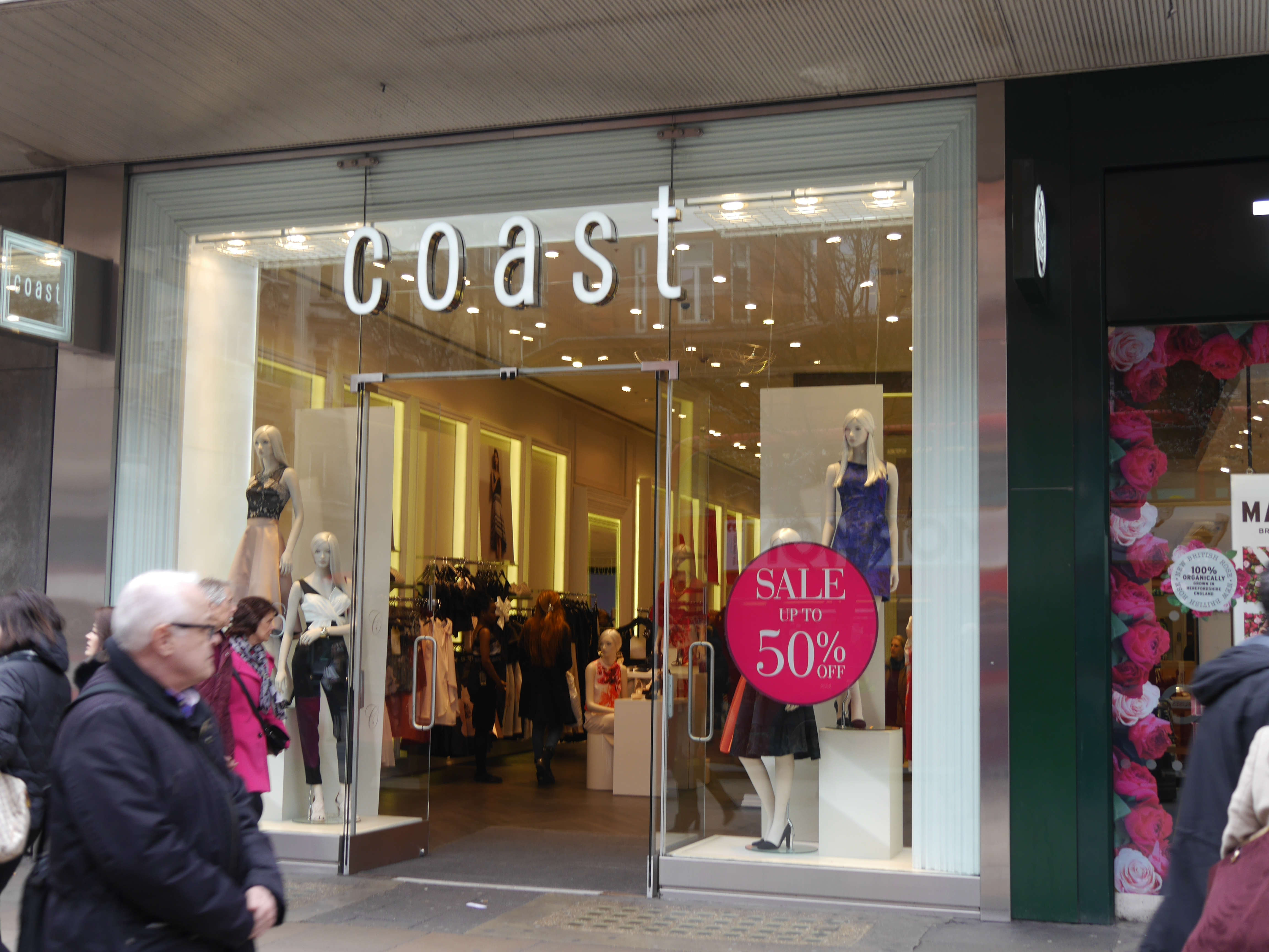 Oxford Street, London, March 2016